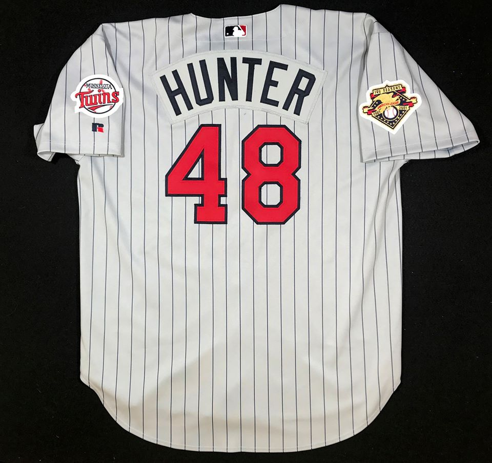 2001 Minnesota Twins #48 Torri Hunter road jersey lettered and photographed by William F. Henderson who may be contacted through his website thedream.shop